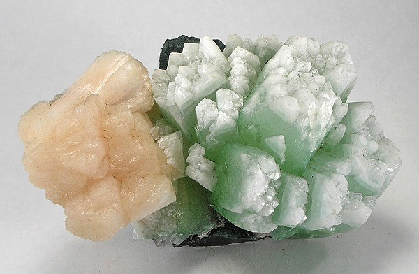 Apophyllite-(KF), Stilbite-Ca Locality: Nasik District, Maharashtra, India (Locality at ) Size: 17.2 x 11.4 x 8.4 cm. A large SHOWPIECE combo specimen from India! It features a cluster of huge, blocky apophyllite crystals, to 5.5 cm across the termination, sitting right beside a cluster of peachy bowtie stilbites. The apophyllites have crenellated terminations with a frosty color that is really pretty atop the green apophyllite. The specimen was trimmed out beautifully, closely cropped around the two minerals on just a thin shard of matrix. In fact, this matrix extends only underneath the apophyllites - the stilbites jut out freestanding into space. A big, gorgeous piece!